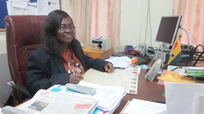 HEAD OF POJOSS